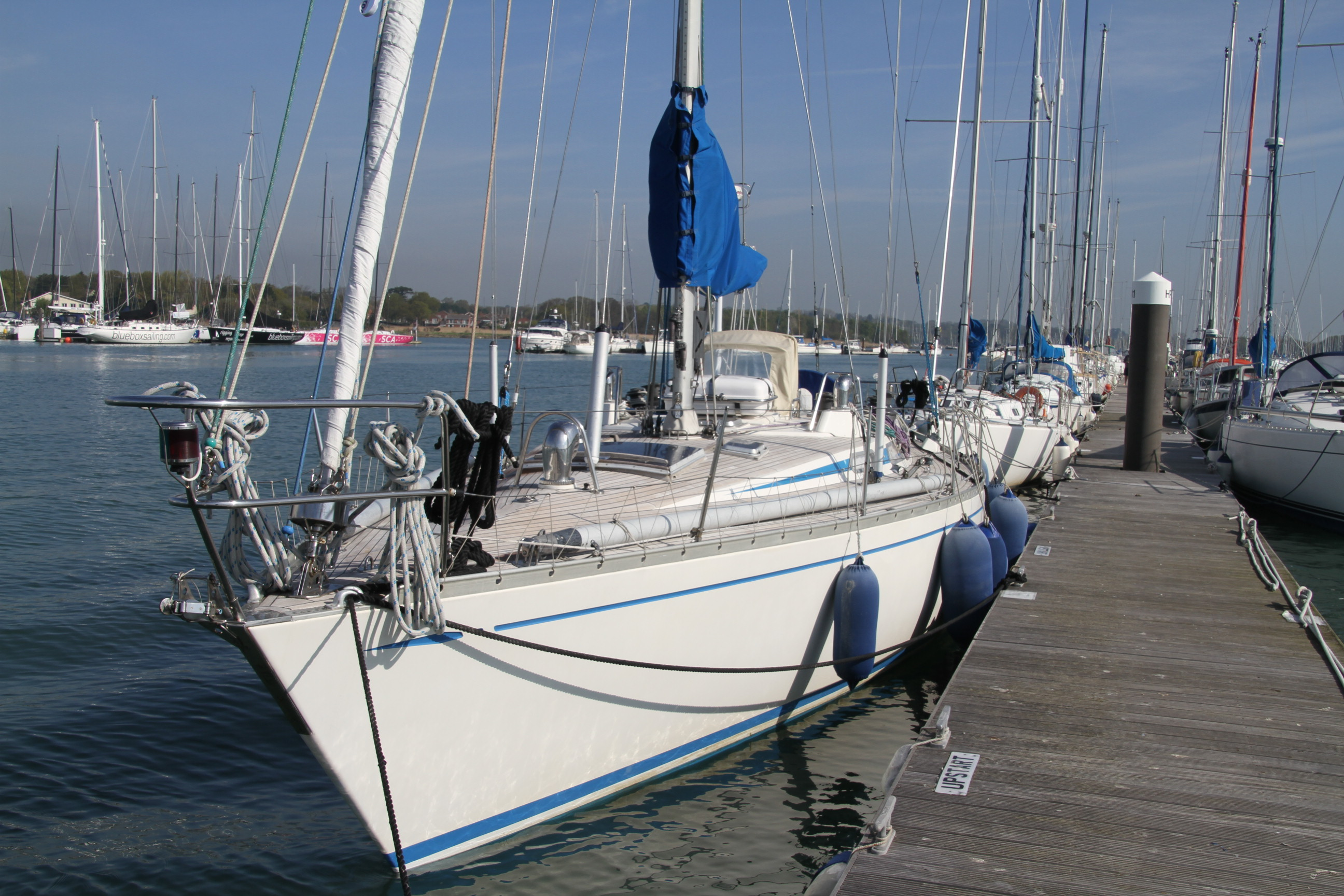 Swan 42 Designed by Ron Holland